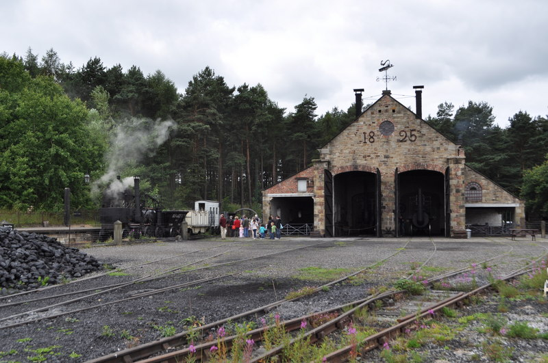 Beamish Museum, County Durham, England. This is the eastern facade and tracks of the Great Shed on the Pockerley Waggonway. Also visible is the single platform, on the left.